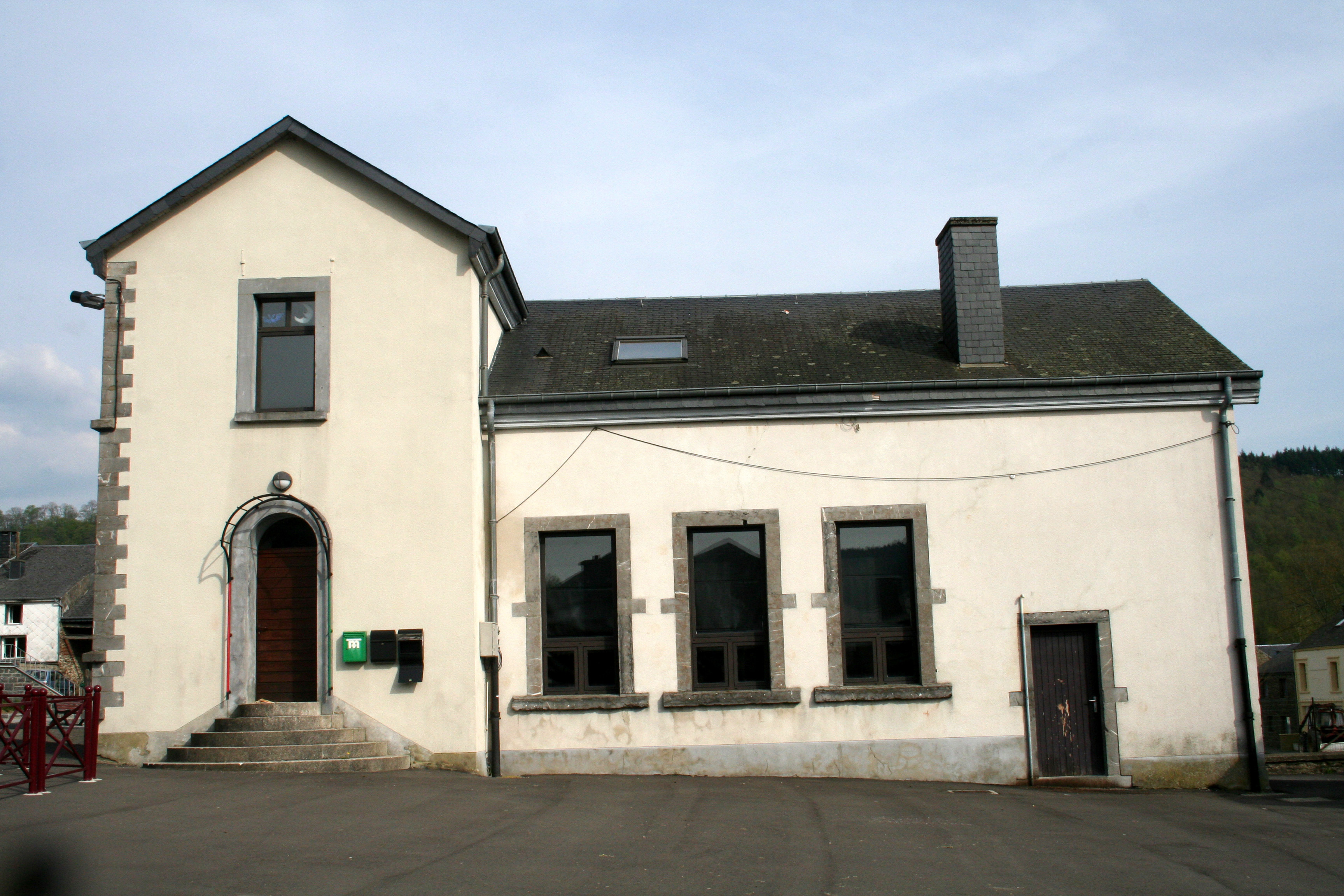 Poupehan (Belgium), the old school.